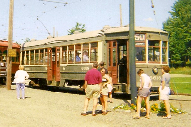 Philadelphia Rapid Transit Co. Nearside streetcar at the Seashore Trolley Museum, Kennebunkport, Maine